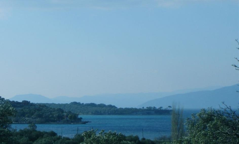 Garip Island near Dikili, Turkey